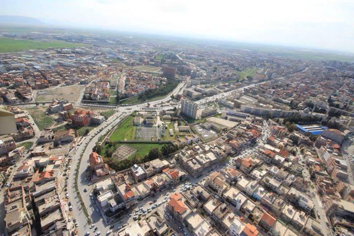 Sétif in Algeria.